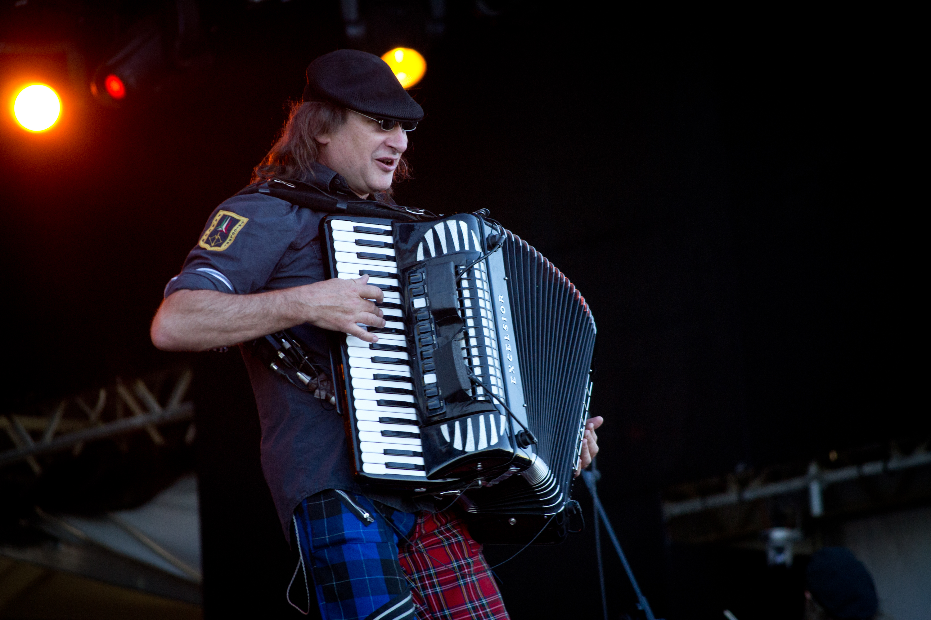 Gogol Bordello in Rock in Rio Madrid 2012.